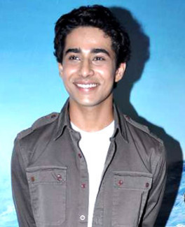 Suraj Sharma at the press conference of Ang Lee's Life Of Pi (2012) at New Delhi.